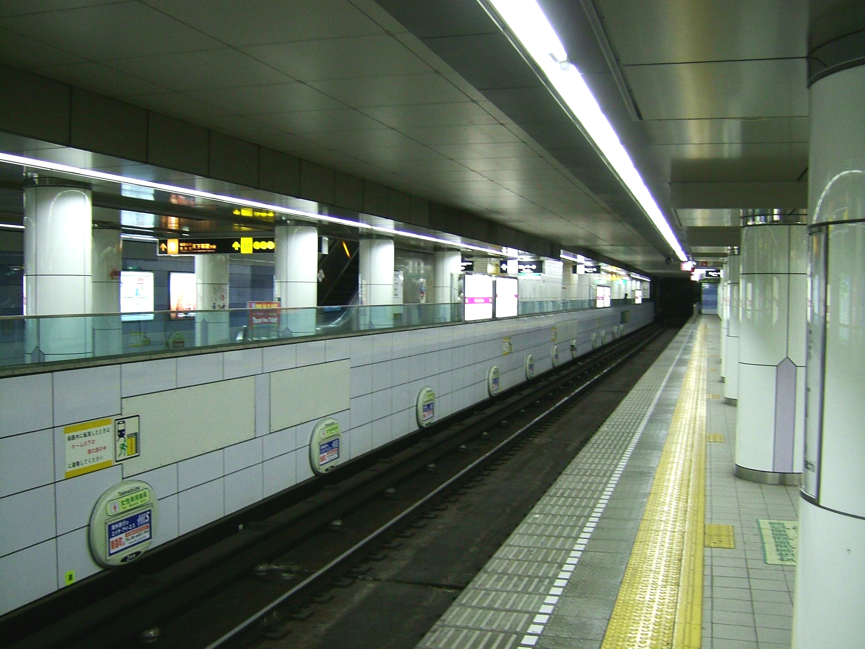 The platform at Minami-morimachi Station on the Tanimachi Line